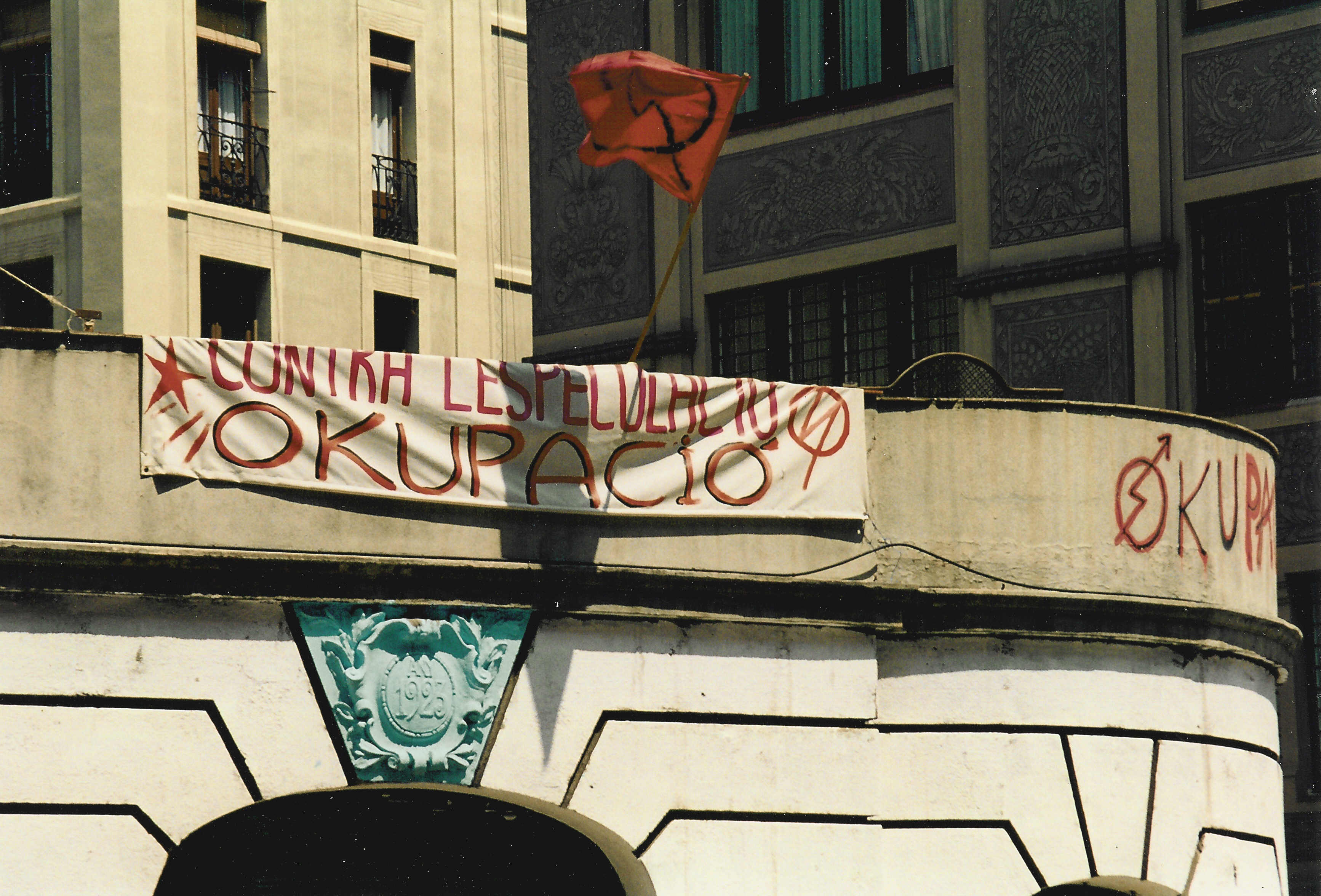 Anarchist-occupied theater just east of Via Laietana, Barcelona